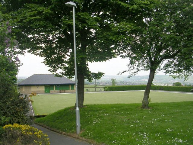 Stainland Park Bowling Green - off South Parade